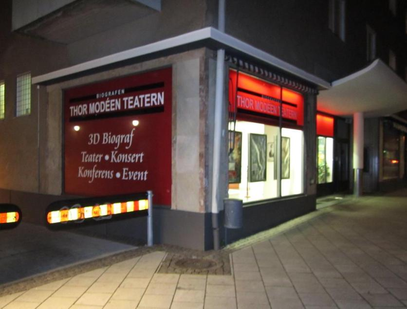 Thor Modéen Theater, as released by image creator CabarEng.